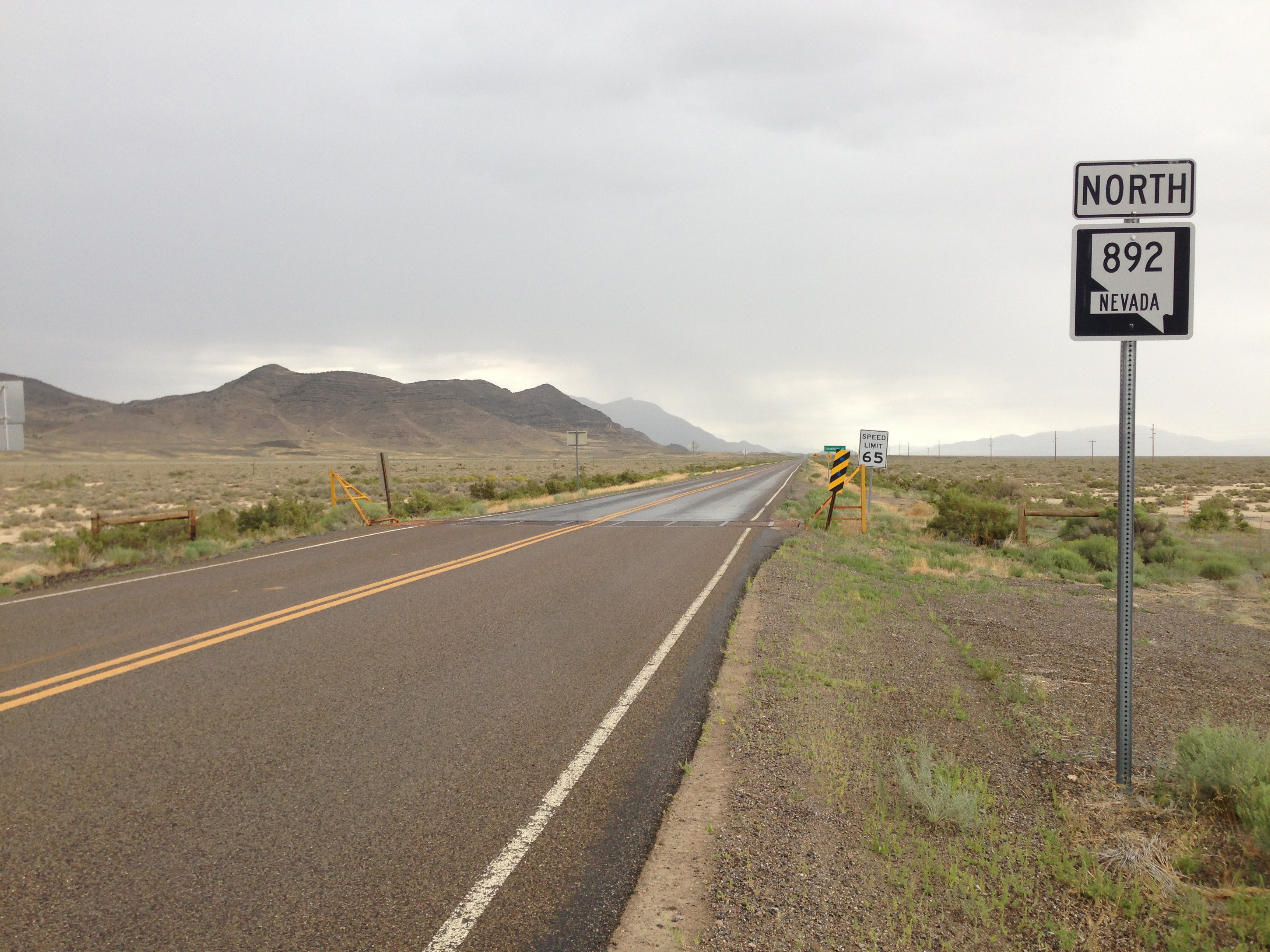 First reassurance sign along northbound Nevada State Route 892 (Strawberry Road) in White Pine County, Nevada